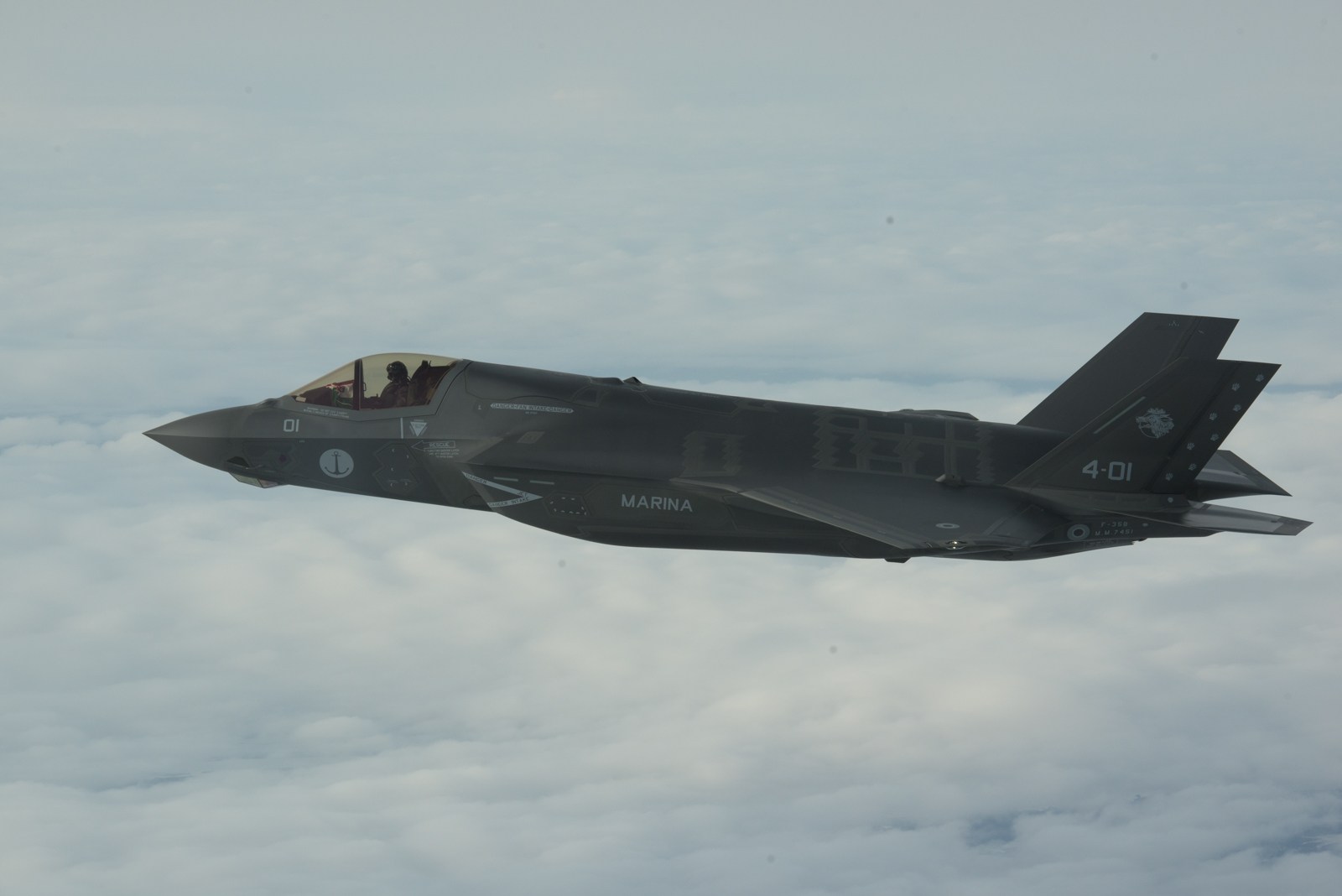 The first F-35B of the Italian Navy during the flight to the NAS of Patuxent River.